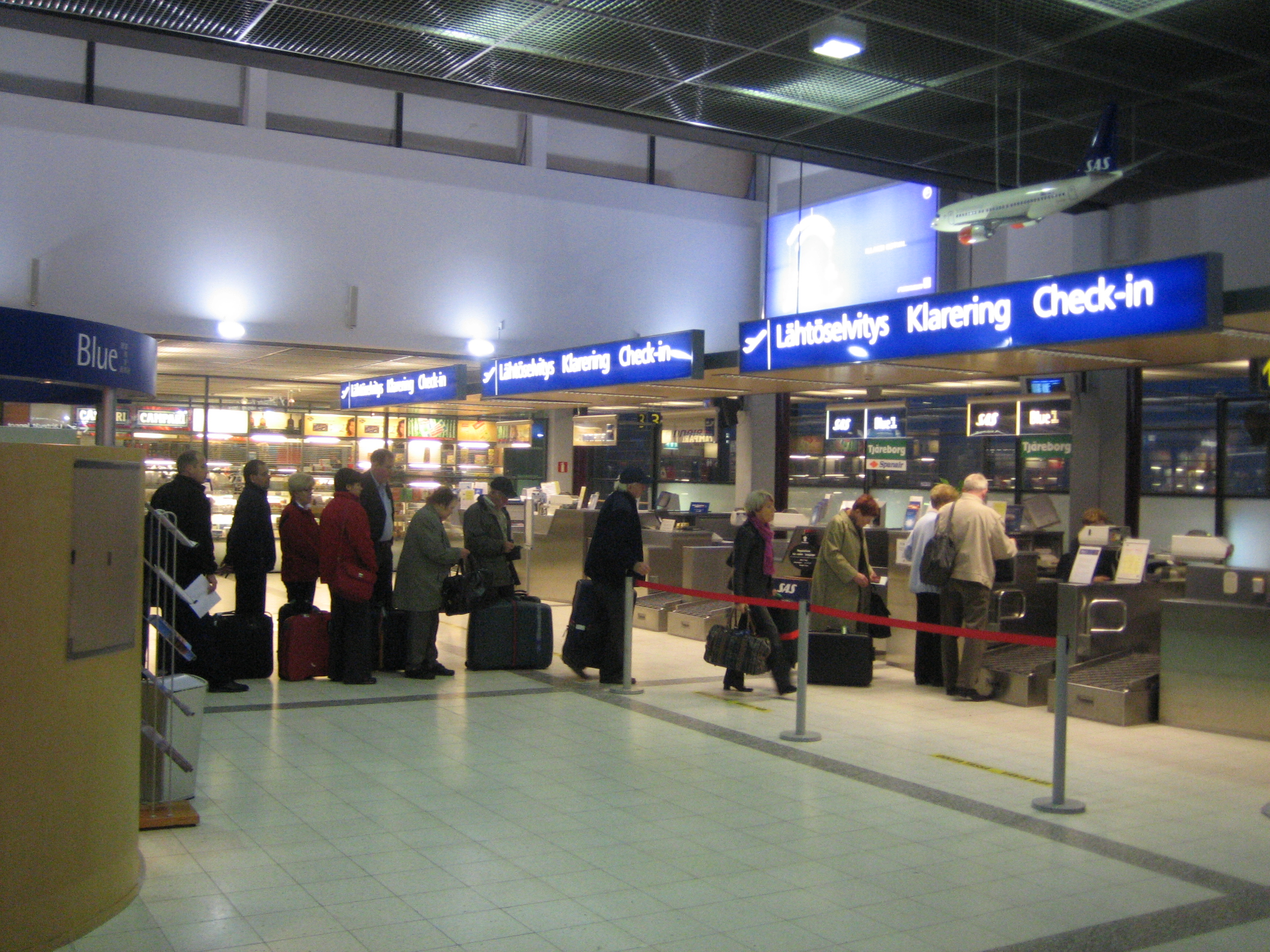 Departure hall of Turku Airport in Turku, Finland